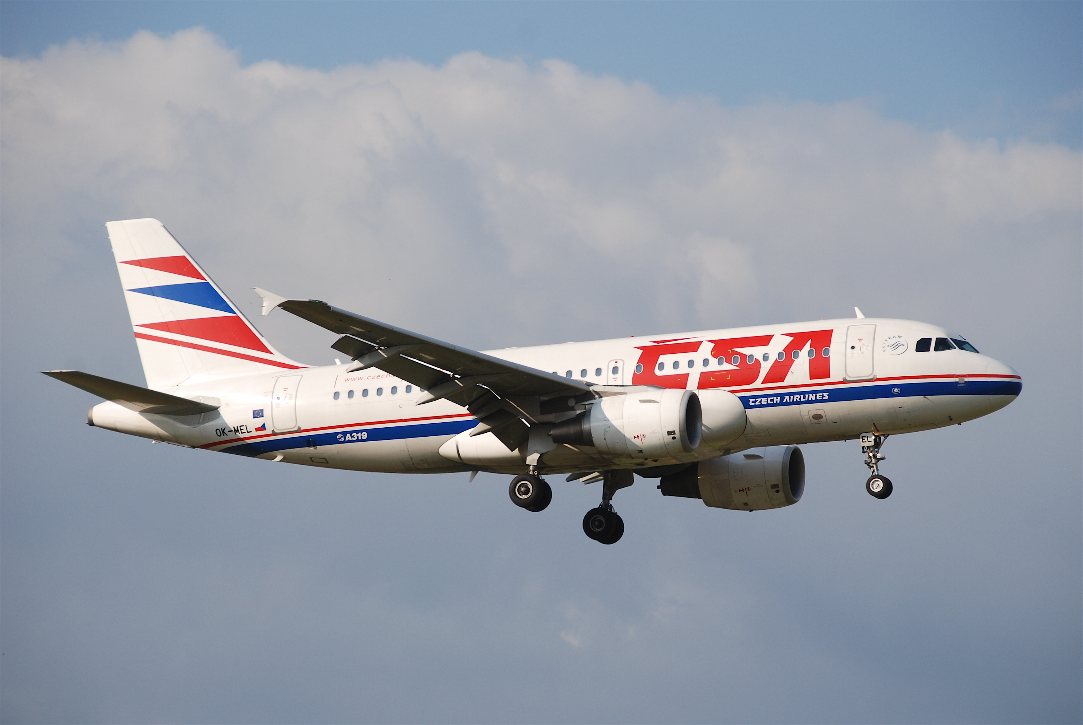 CSA Czech Airlines Airbus A319-112; OK-MEL@ZRH;30.06.2011/601as